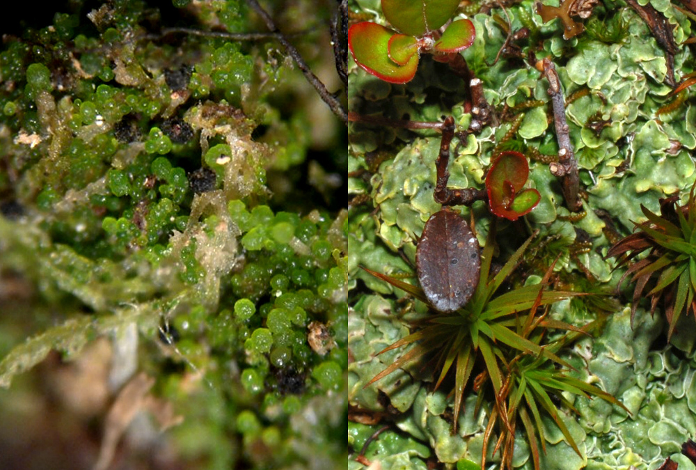 Omphalina hudsoniana, Near Zunderwand, Carinthia, Austria